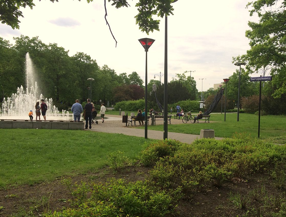 Lucjana Broniewicza Square in Torun